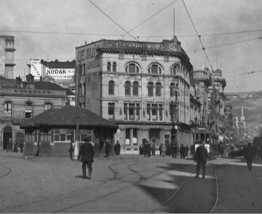 The building of W M Bannatyne & Co, Post Office Square, Wellington New Zealand later T & W Young's